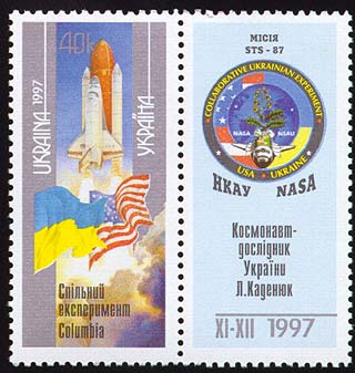 Stamp of Ukraine